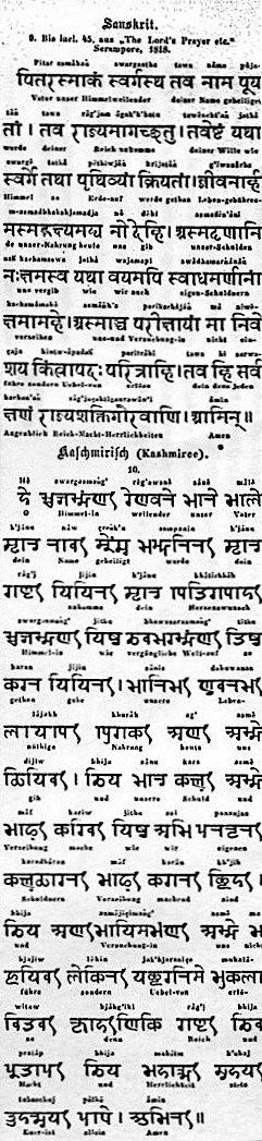 Image of "Die Sprachenhalle" by Alois Auer